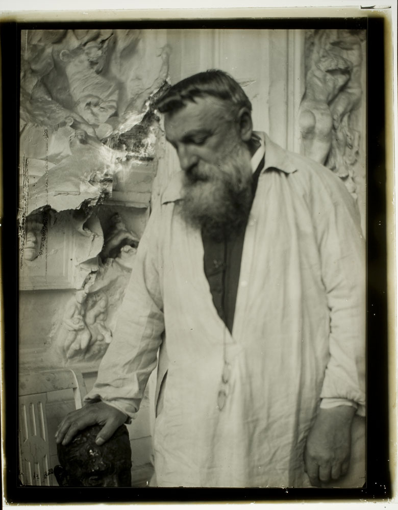 Public Domain Gelatin silver glass interpositive